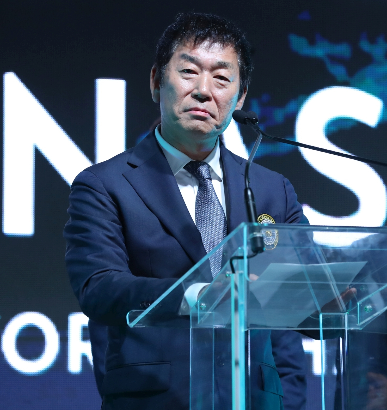 Impressions from the closing ceremony at the 1st FIG Artistic Gymnastics Junior World Championships on 30 June 2019 in Győr, Hungary.